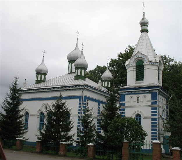 Orthodox church in Braslau (Браслаў, Браслав, Braslav, Braslava, Breslauja), in the western part of Vit(s)ebsk region (province), Belarus.